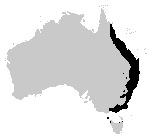 Distribution of the Striped Marsh Frog (Limnodynastes peronii) in Australia.